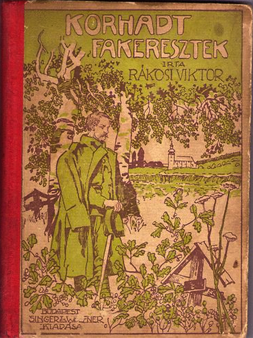 Front cover of the 1913 edition of the Hungarian short story collection "Korhadt fakeresztek" (